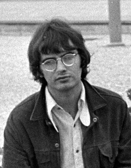 Tom McGuinness arriving at Schiphol Airport, the Netherlands, 11 Sept. 1967.